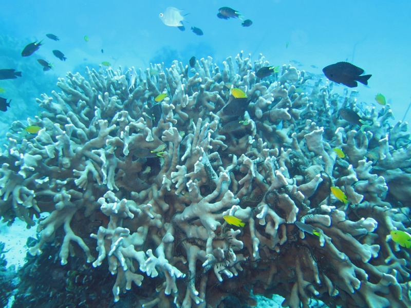 A branching colony of Blue Coral (Heliopora coerulea) about 1 metre across at Lizard Island. Australia